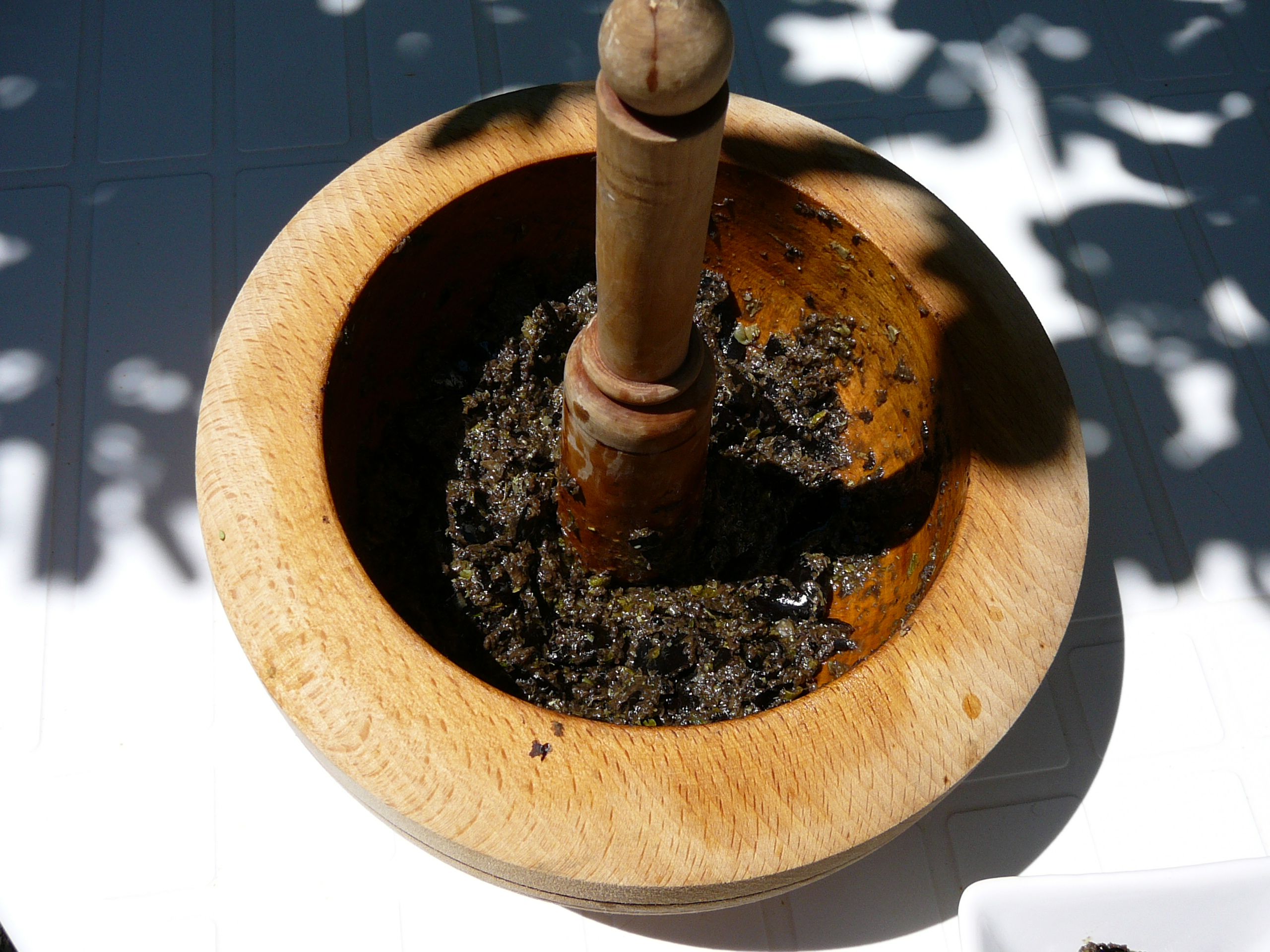 Tapenade is a Provençal dish consisting of finely chopped black olives, capers, anchovies, and olive oil.